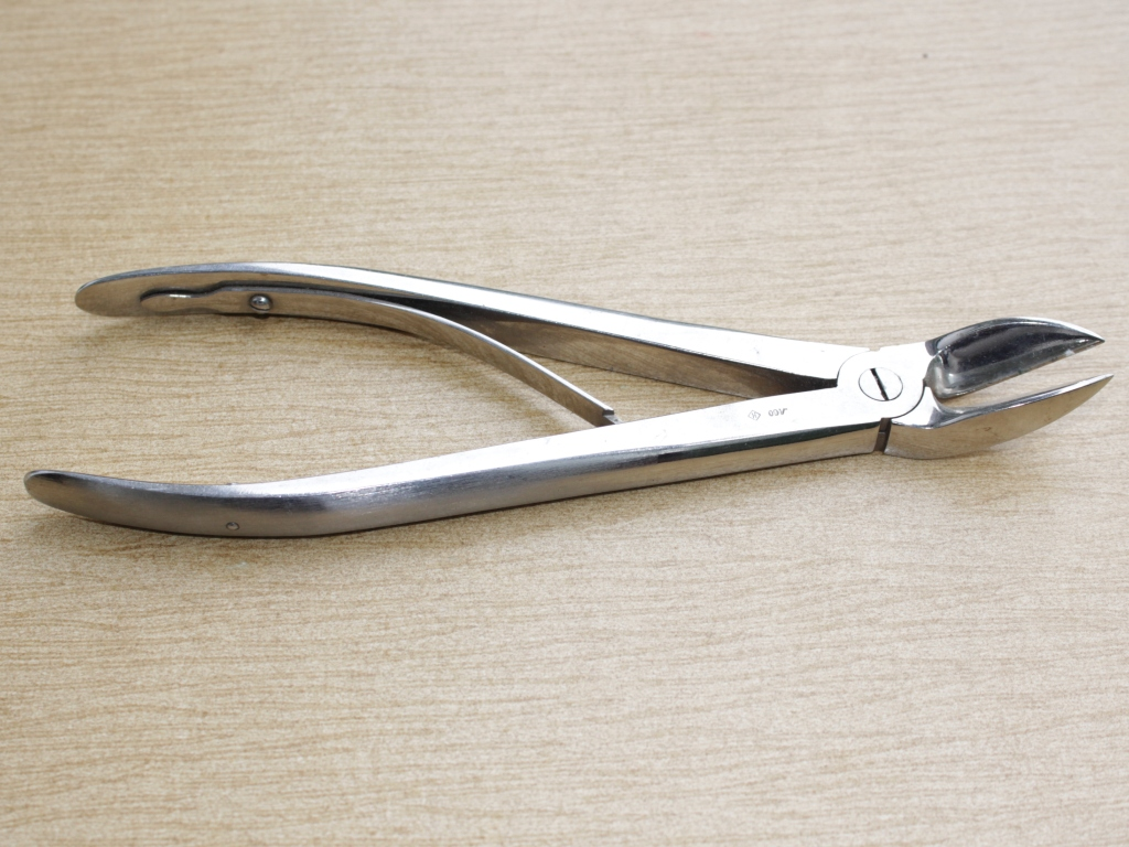 Liston Bone Cutting Forcep curved